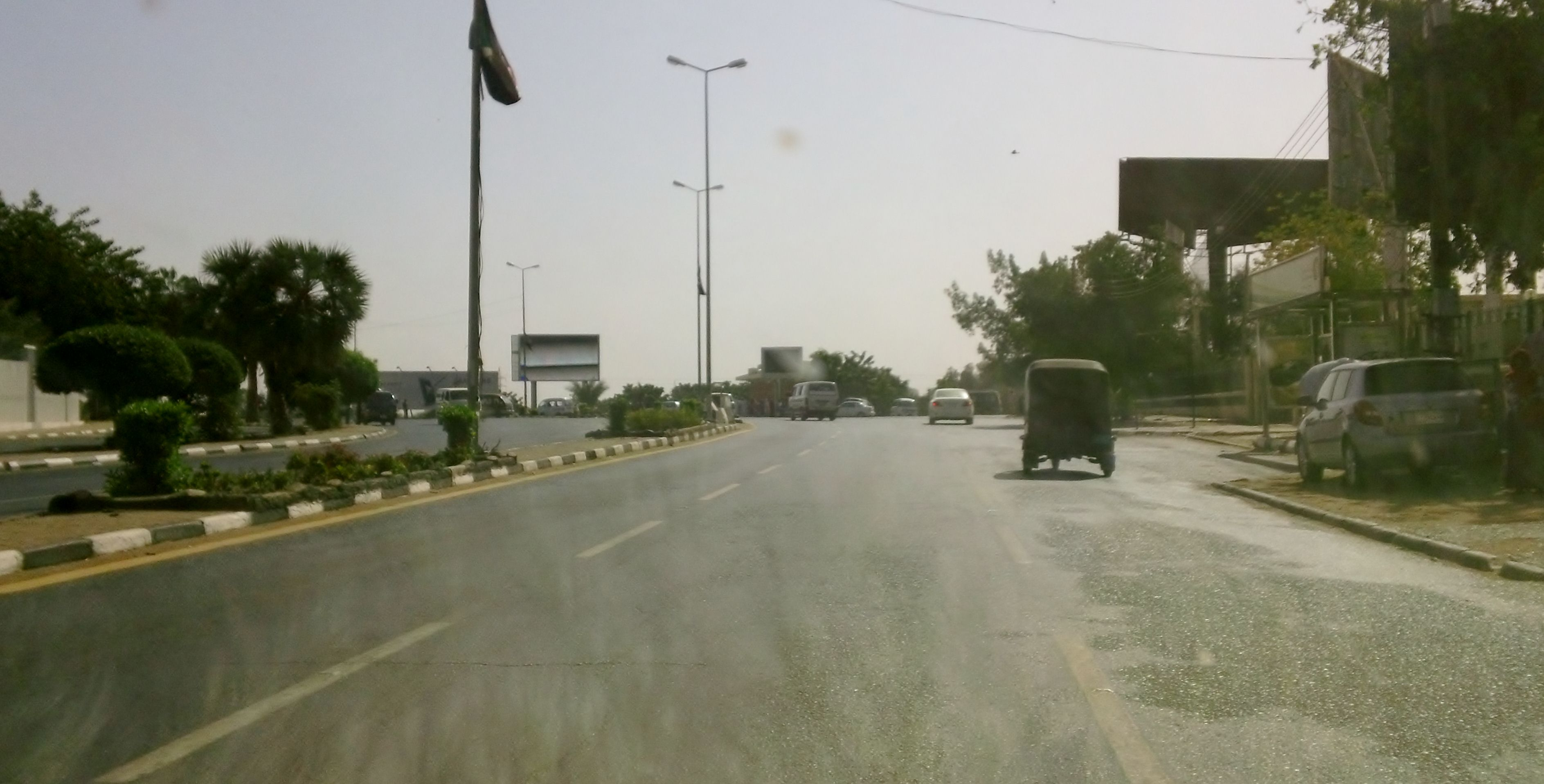 Almohandseen Street – Omdurman - Sudan